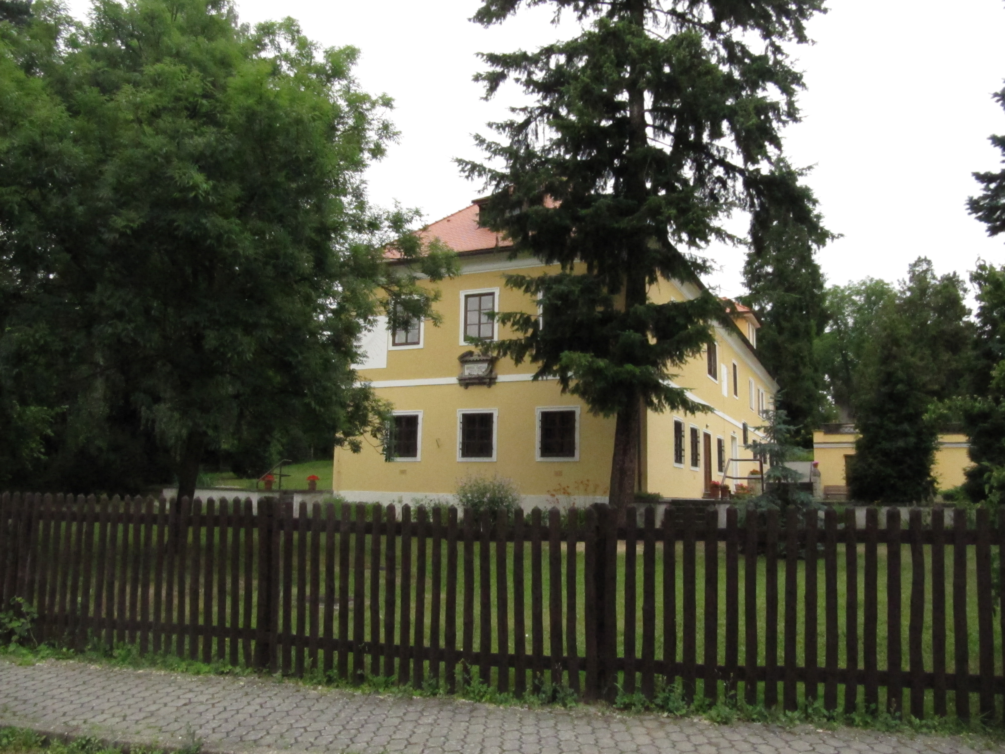 Jabkenice-Smetana museum